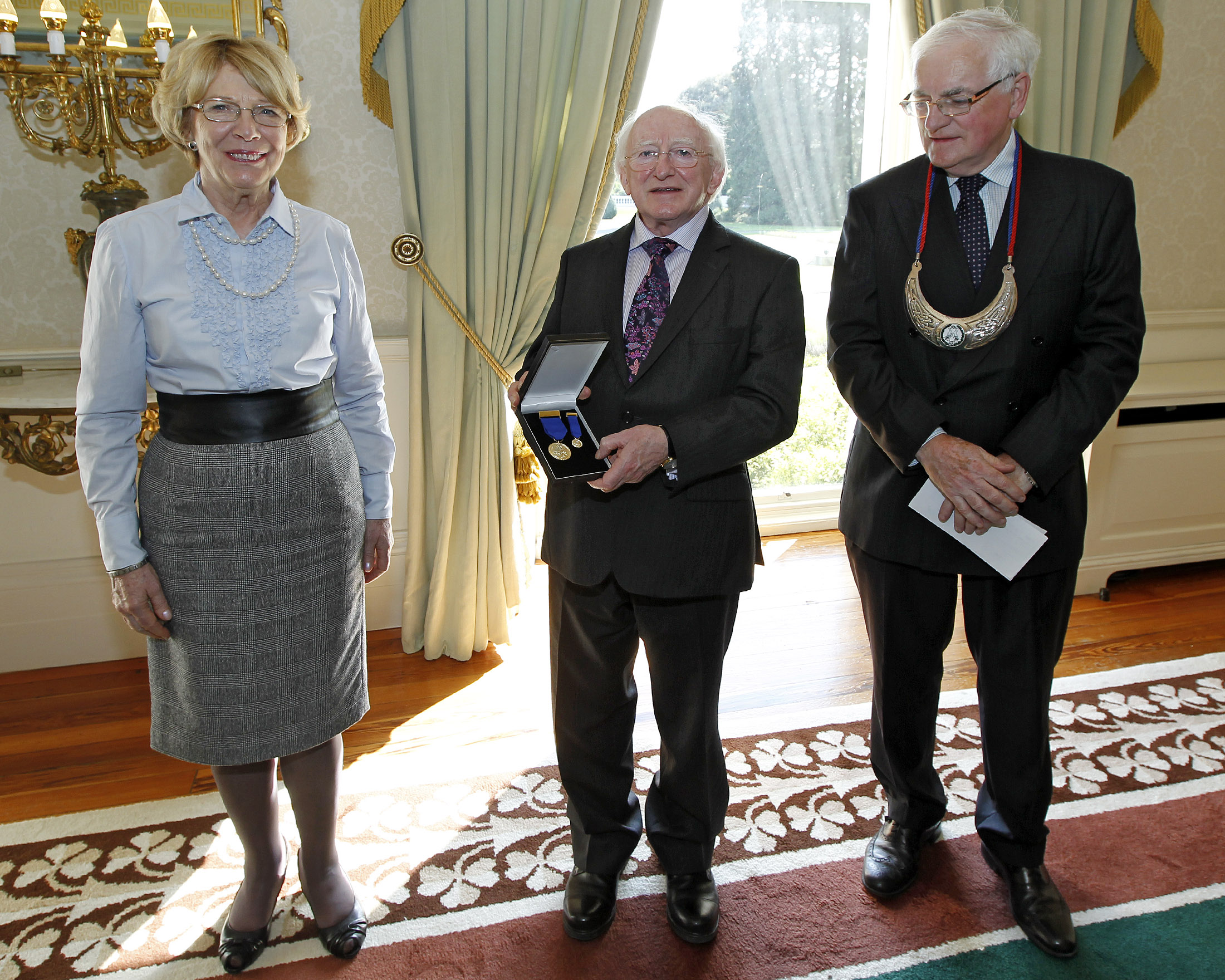 President of Ireland, Michael D. Higgins, centre, receives the Order of Clans of Ireland from Dr. Michael J. Egan, right, Cathoirleach of Clans of Ireland. Higgins's wife, Sabina Coyne, stands to the left.